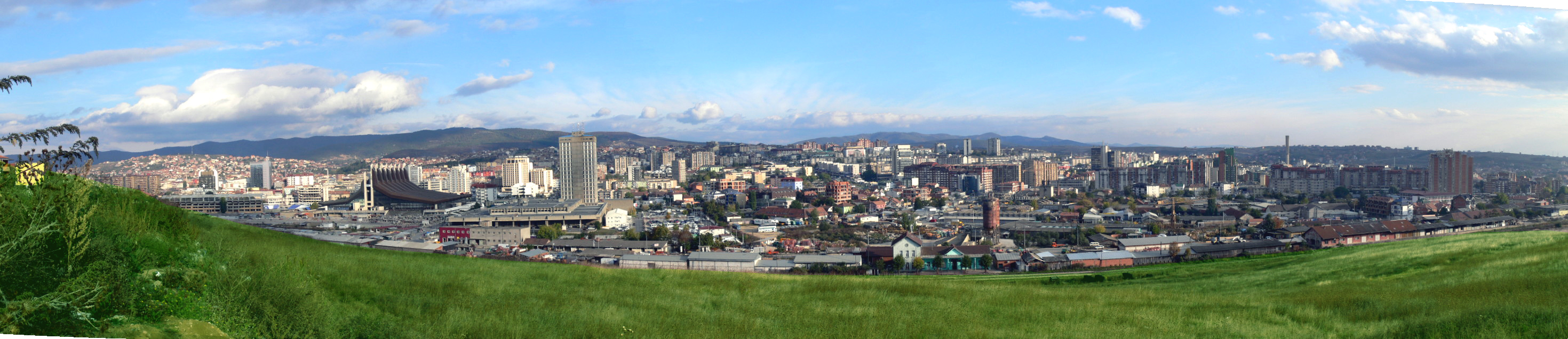 Pristina